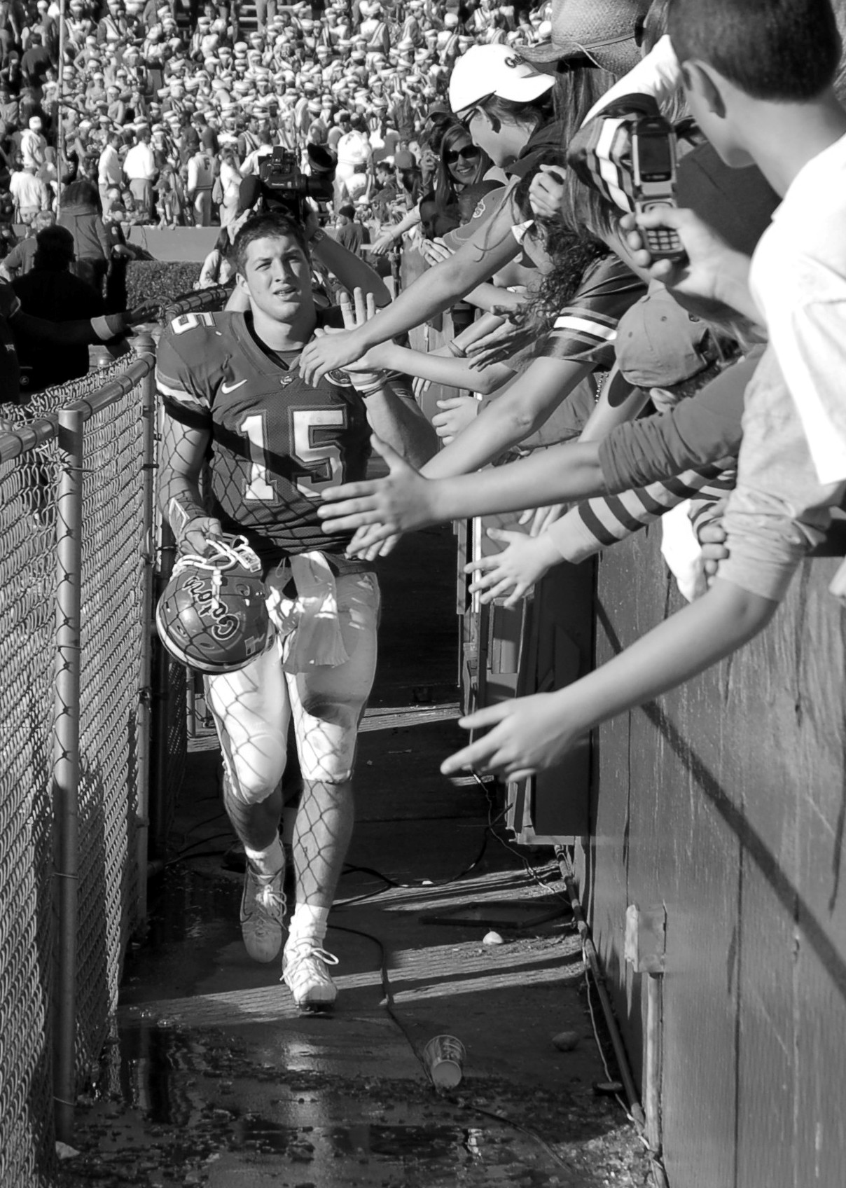 Taken after the University of Florida vs. Florida Atlantic University football game in 2007.